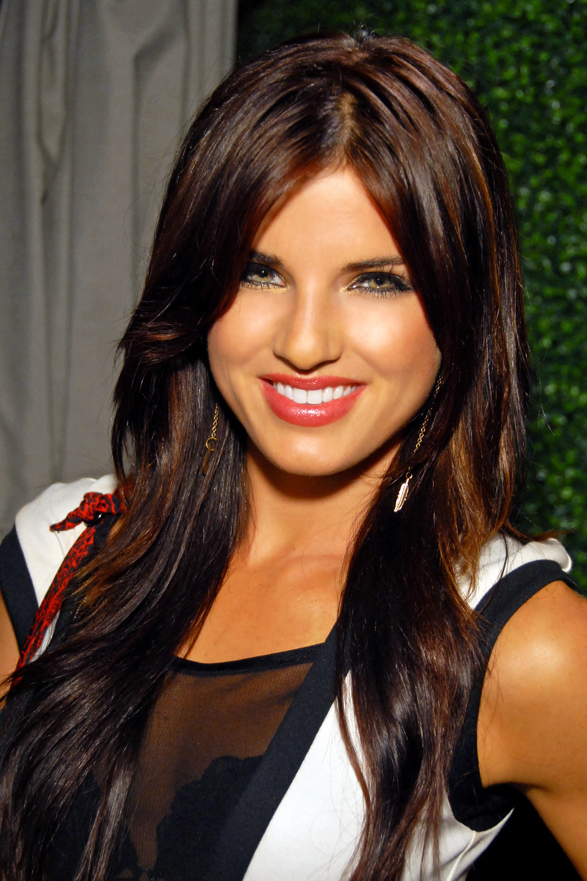 Rachele Brooke Smith, West Hollywood, CA on September 15, 2011 - Photo by Glenn Francis of